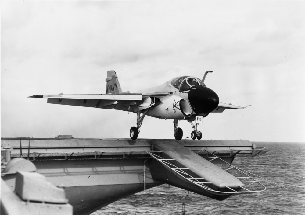 PictionID:42254257 - Title:Grumman A-6A USS Enterprise Dec62 (mfr 63129 via RJF) - Catalog:17_000078 - Filename:17_000078.tif - ------------Image from the René Francillon Photo Archive. Having had his interest in aviation sparked by being at the receiving end of B-24s bombing occupied France when he was 7-yr old, René Francillon turned aviation into both his vocation and avocation. Most of his professional career was in the United States, working for major aircraft manufacturers and airport planning/design companies. All along, he kept developing a second career as an aviation historian, an activity that led him to author more than 50 books and 400 articles published in the United States, the United Kingdom, France, and elsewhere. Far from “hanging on his spurs,” he plans to remain active as an author well into his eighties.-------PLEASE TAG this image with any information you know about it, so that we can permanently store this data with the original image file in our Digital Asset Management System.--------------SOURCE INSTITUTION: San Diego Air and Space Museum Archive